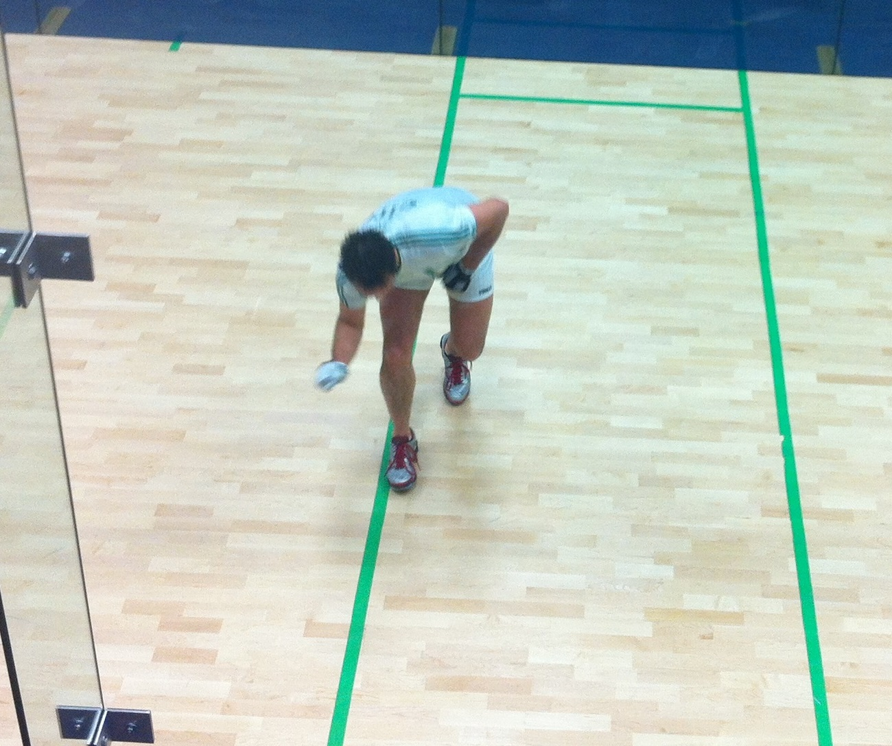 Paulbradyserving